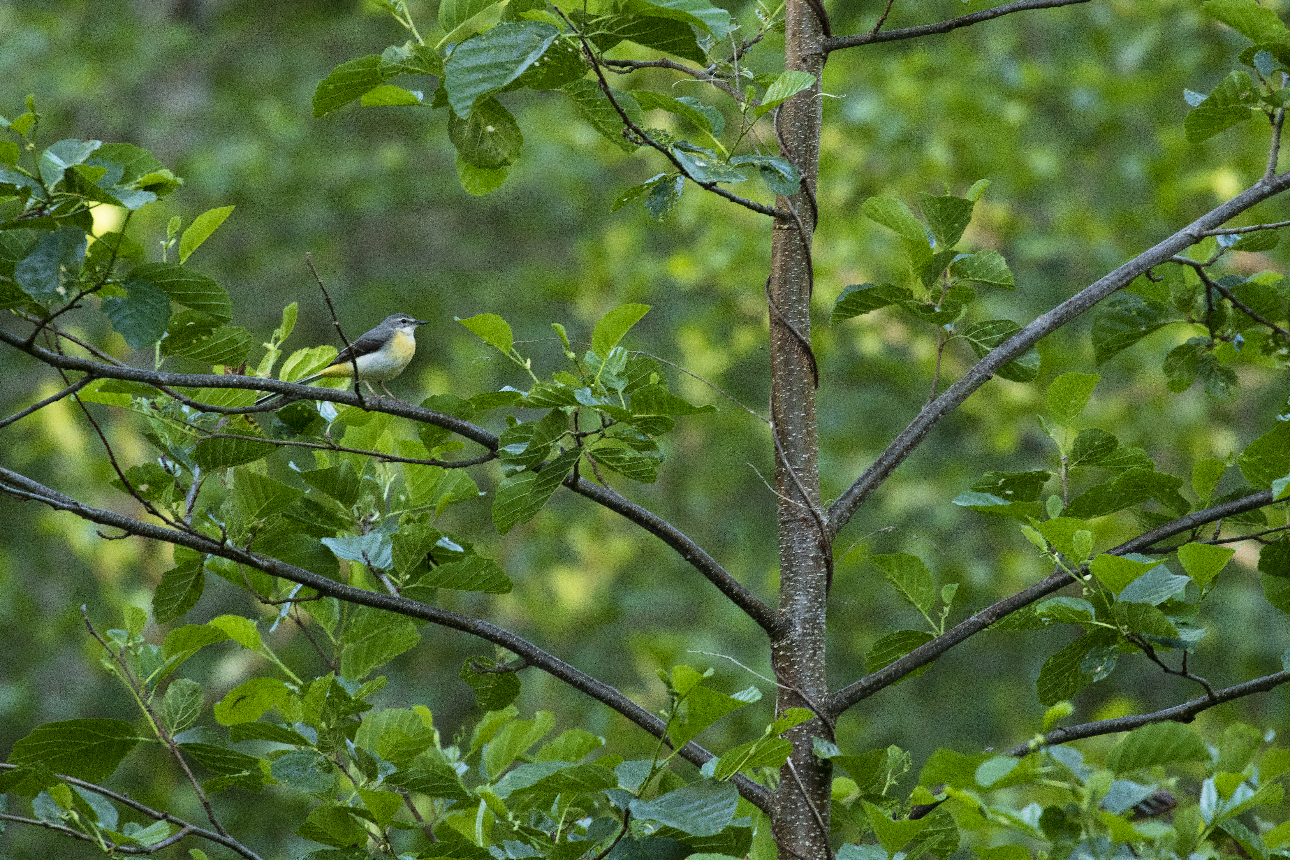 In Estonia there is only 1-5 pairs of Grey wagtail (Motacilla cinerea) living.